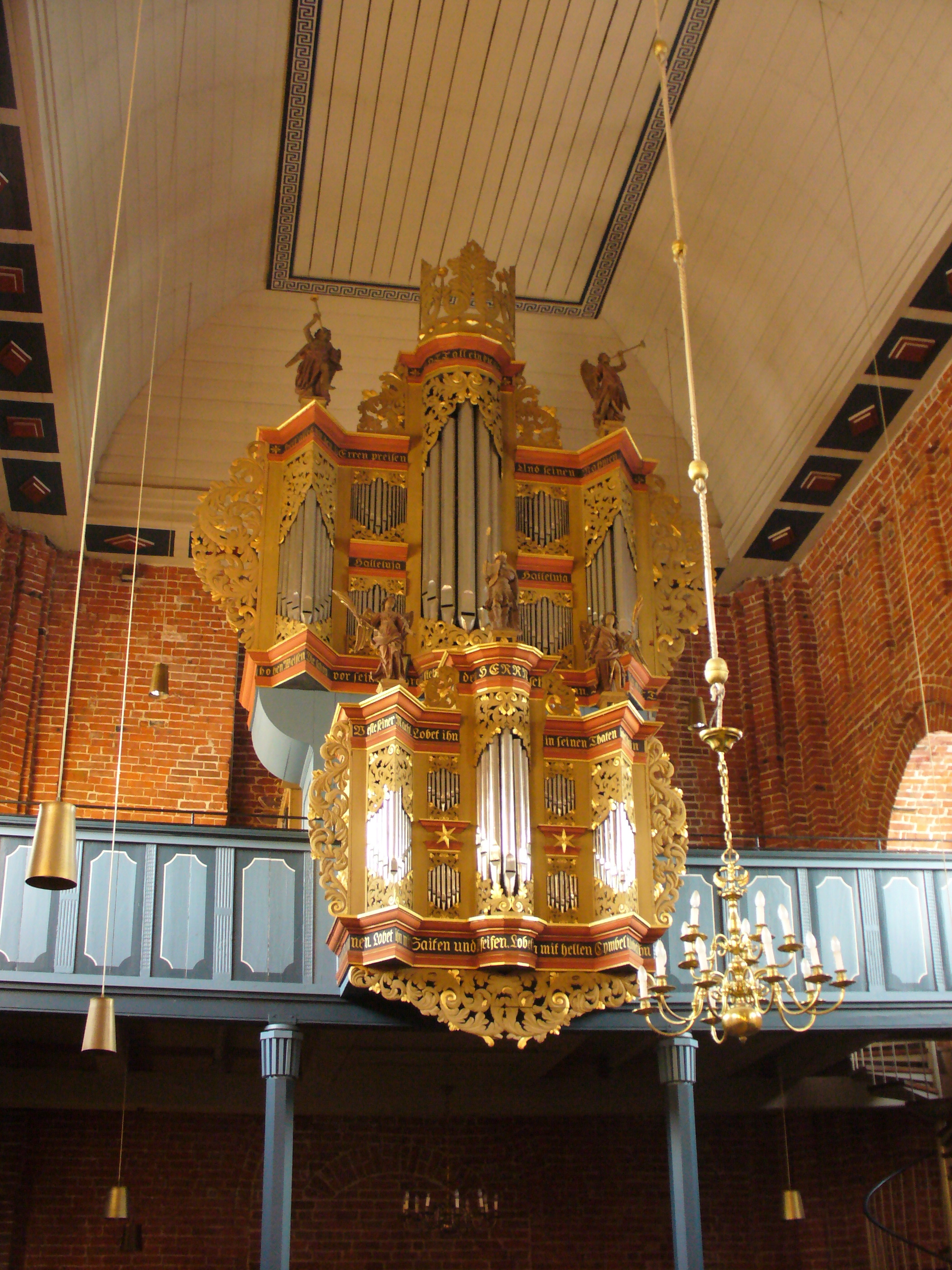 The pipe organ in the Evangelical Lutheran Church in Marienhafe (East Frisia), Lower Saxony, Germany.